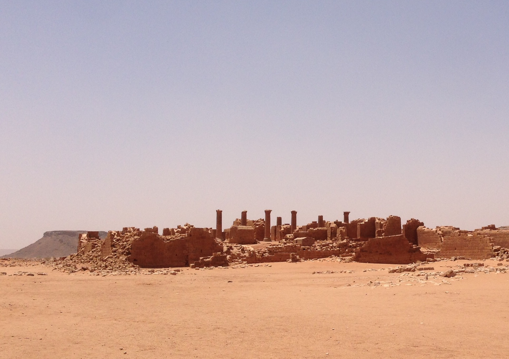 Musawwarat